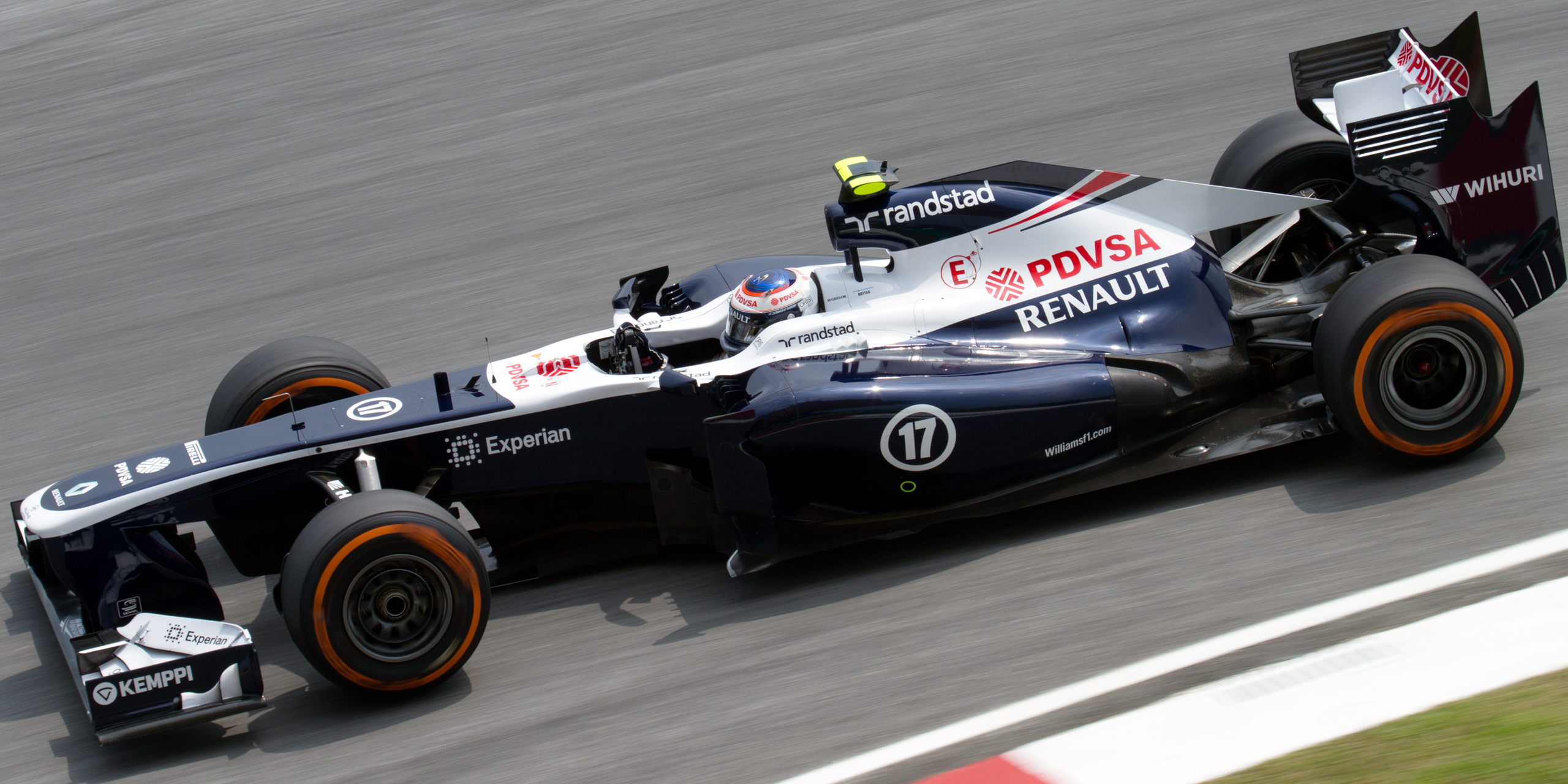 Formula One 2013 Rd.2 Malaysian GP: Valtteri Bottas (Williams) during the first practice session on Friday.